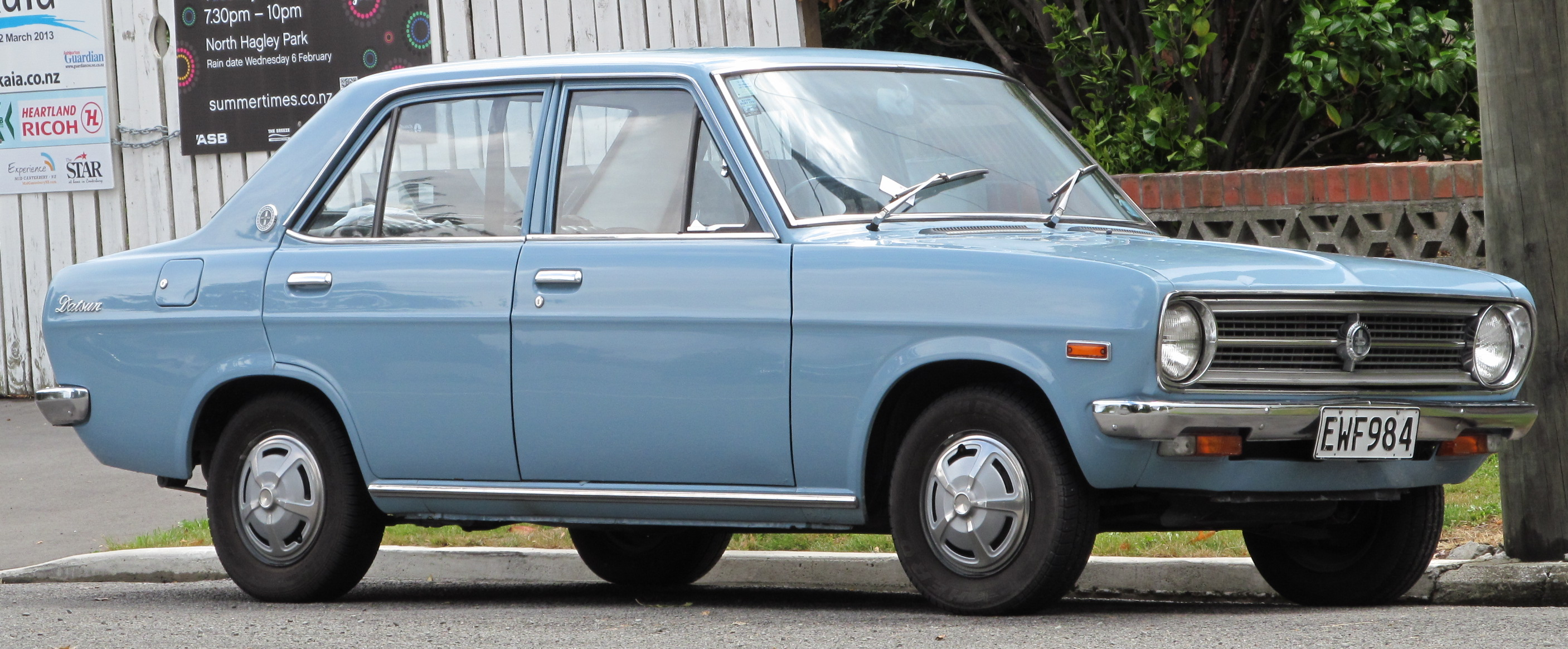 EWF984 The only thing letting this immaculate 1200 down was the new (2009) registration plate, which really doesn't go with the rest of the car. Other than it was as good an example as you are likely to see nowadays.